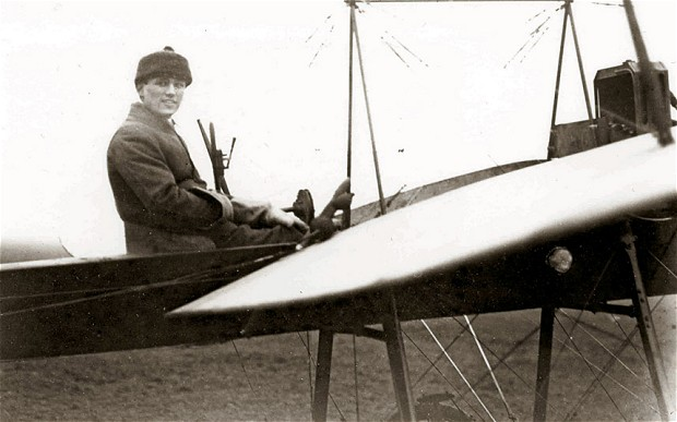 Photograph of Eric Gordon England in a Hanriot monoplane